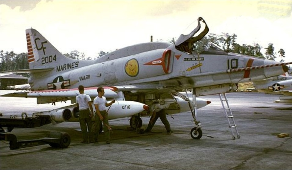 A U.S. Marine Corps Douglas A-4E Skyhawk (BuNo 152004) from Marine attack squadron VMA-211 Wake Island Avengers is armed with a rocket pod at Naval Air Station Cubi Point, Philippines, during the summer of 1971.